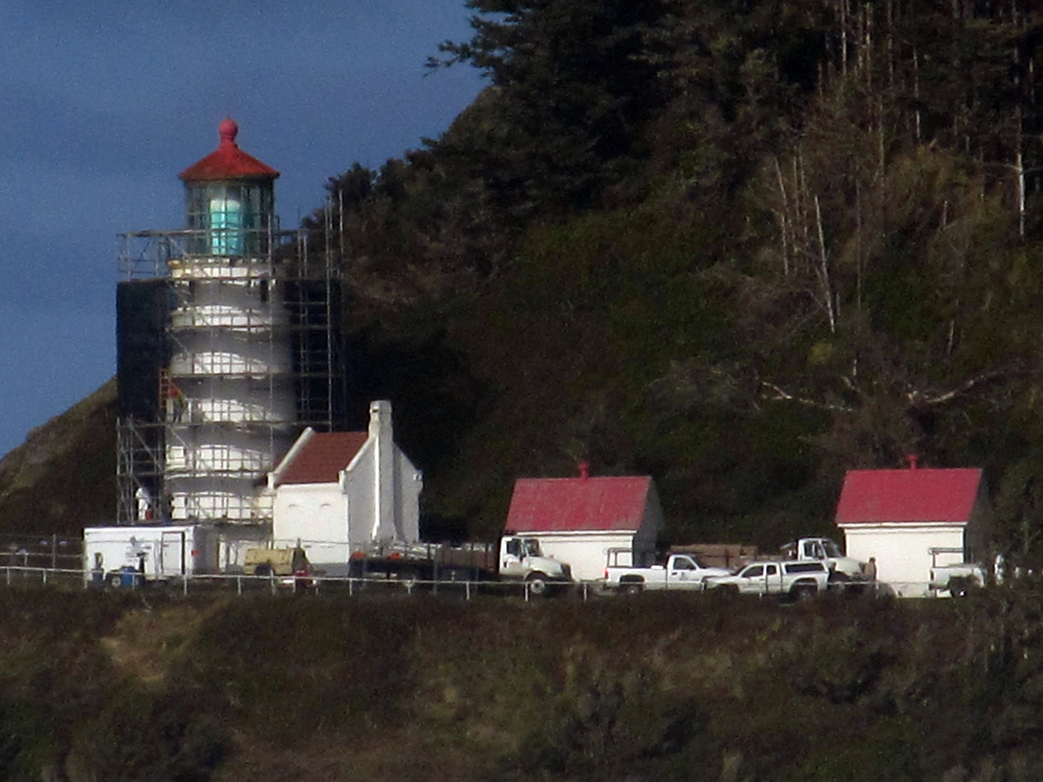 Heceta Head Lighthouse and Keepers Quarters